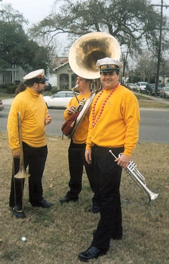 Musicians with trombone, Sousaphone, trumpet Members of the Bone Tone Brass Band of New Orleans, watching the "Krewe of King Arthur" Mardi Gras parade while waiting to march with the following parade, "The Bards of Bohemia". Photo by Infrogmation, 30 January, 2005.